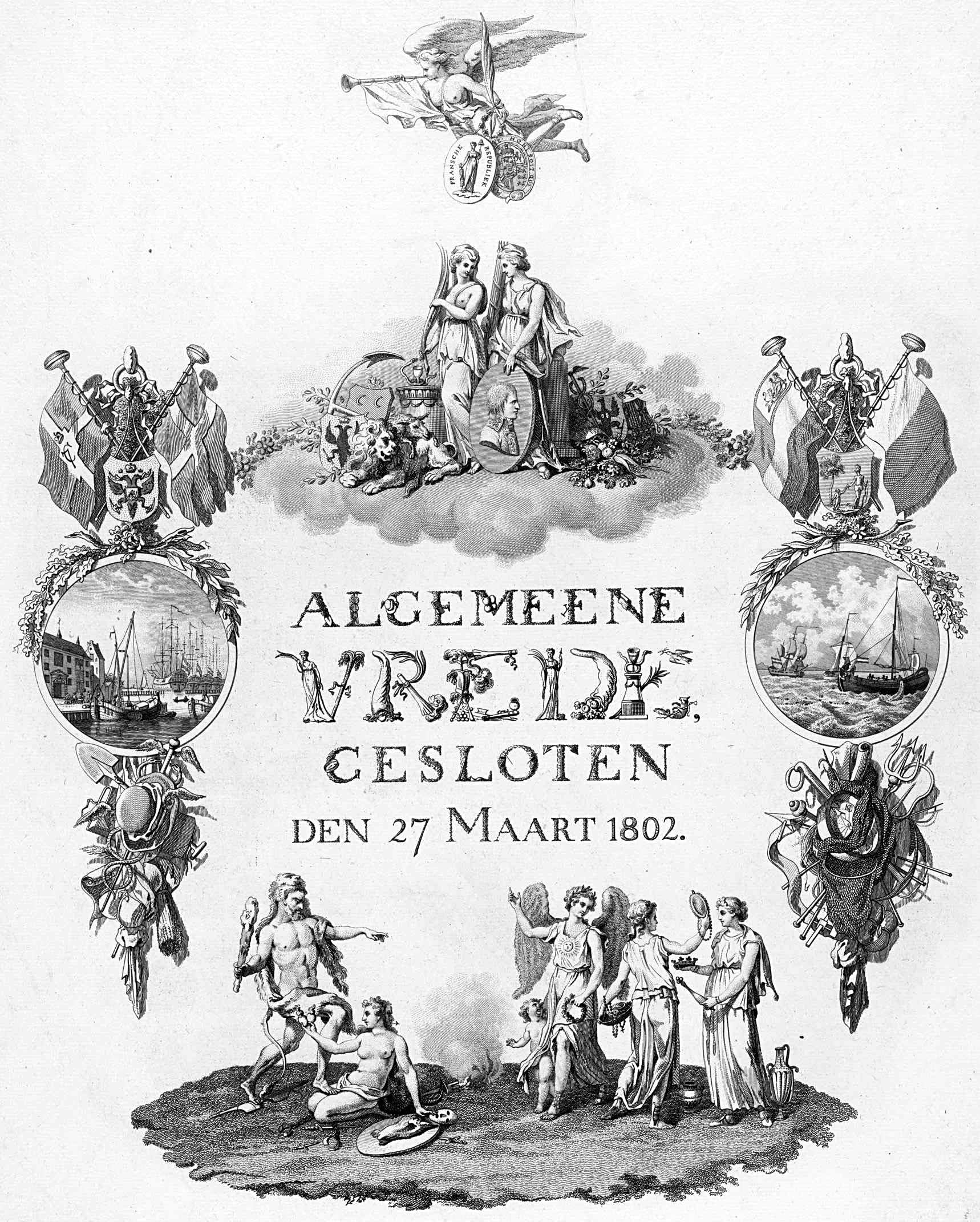 Allegory of the peace concluded at Amiens on March 27, 1802, between the Batavian Republic and France and Britain. Above the calligraphic title stand the Peace and the Fortitude (with a portrait of Napoleon). Above this group flies Fame with palm branch and the weapons of the French Republic and the United Kingdom. Underneath Strength defeats Deceit and Virtue points Wealth and Science towards the Peace. On the side the effects of the peace. Left the flourishing of commerce and agriculture, to the right the herring fishery. The print includes a statement.